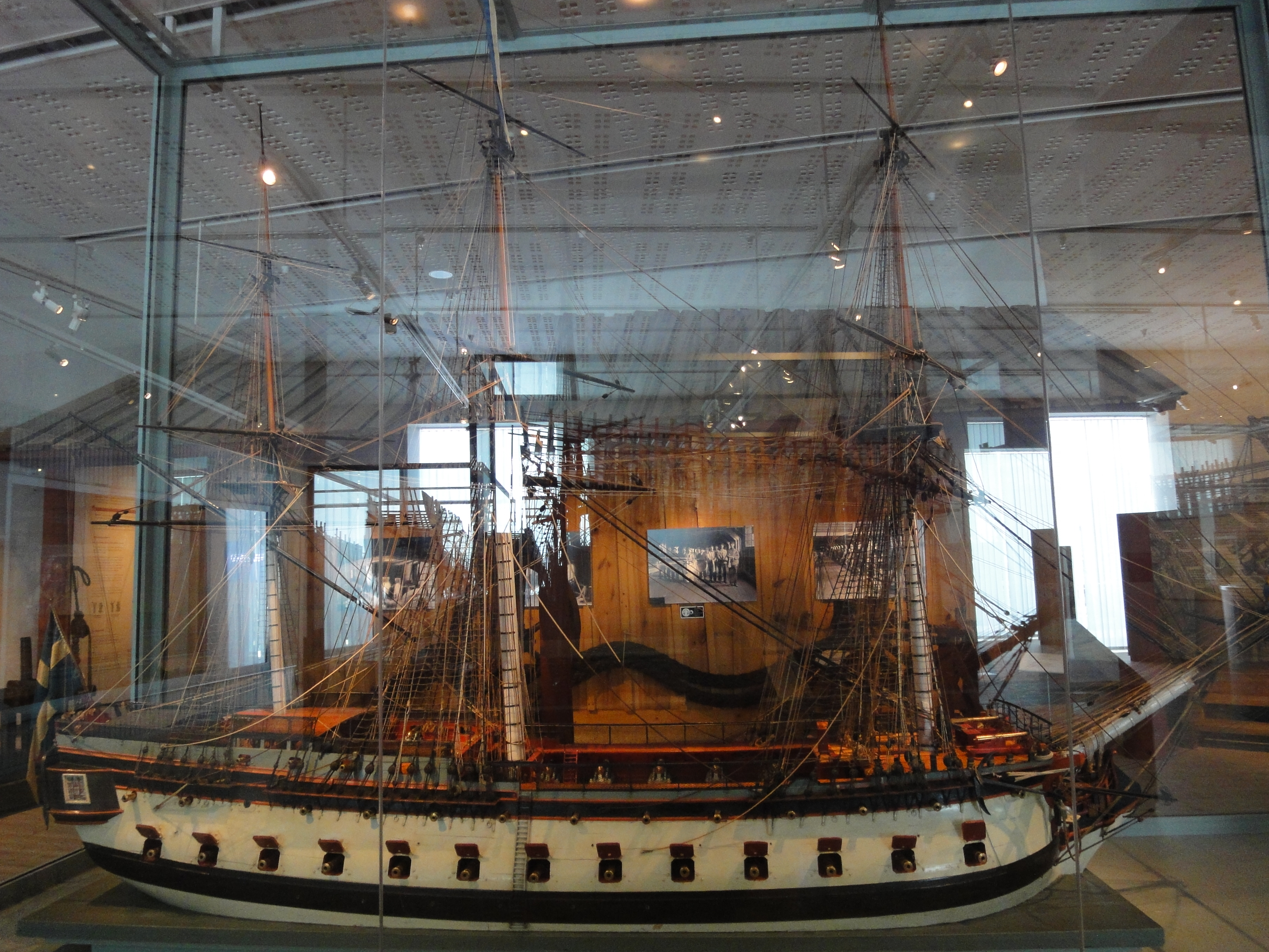 Model of the swedish ship Kronprins Gustaf Adolf.